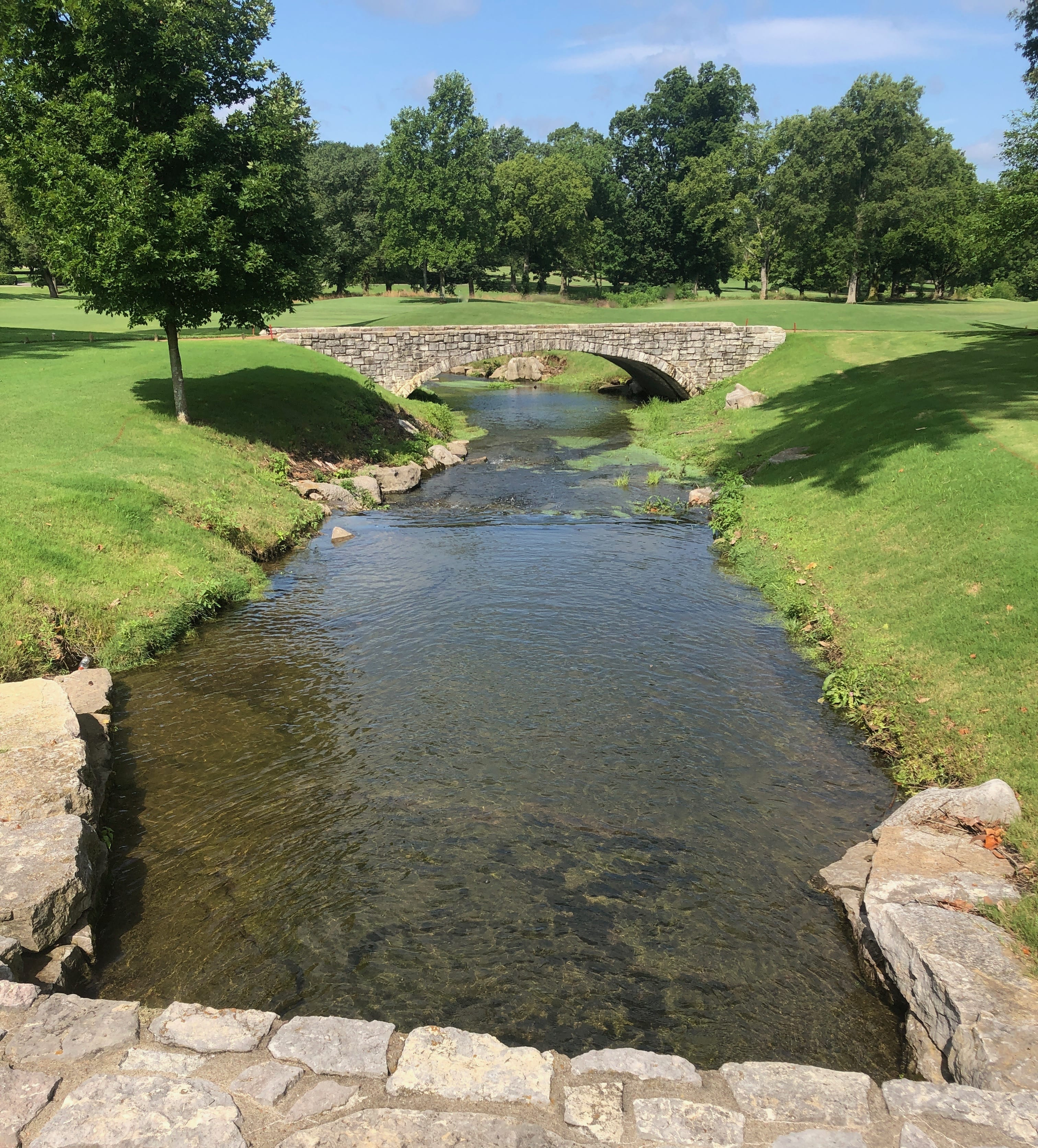 Belle Meade Branch of Richland Creek near Belle Meade Boulevard